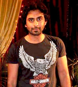 Rohit Khurana at 11th Indian Television Academy Awards 2011